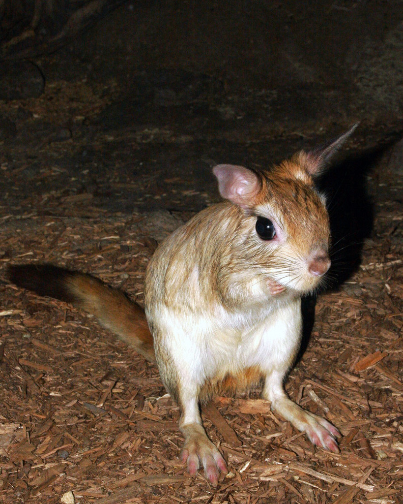 Captive Springhare, Henry Doorly Zoo, Omaha Nebraska.